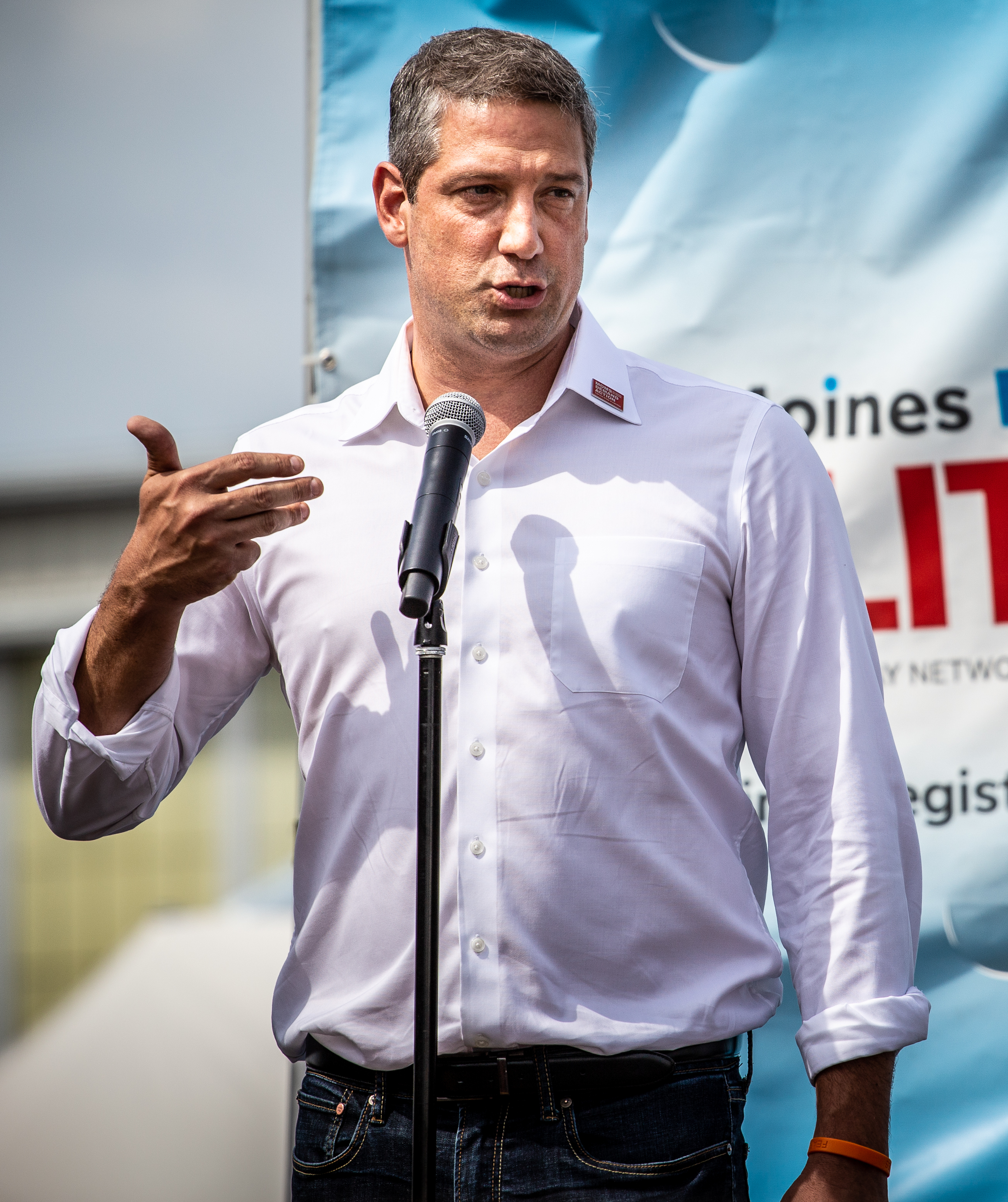 Ohio Congressman Tim Ryan. Photographs of or around the Des Moines Register Political Soapbox at the 2019 Iowa State Fair as eight Democratic presidential candidates dropped by to speak on Saturday, August 10.